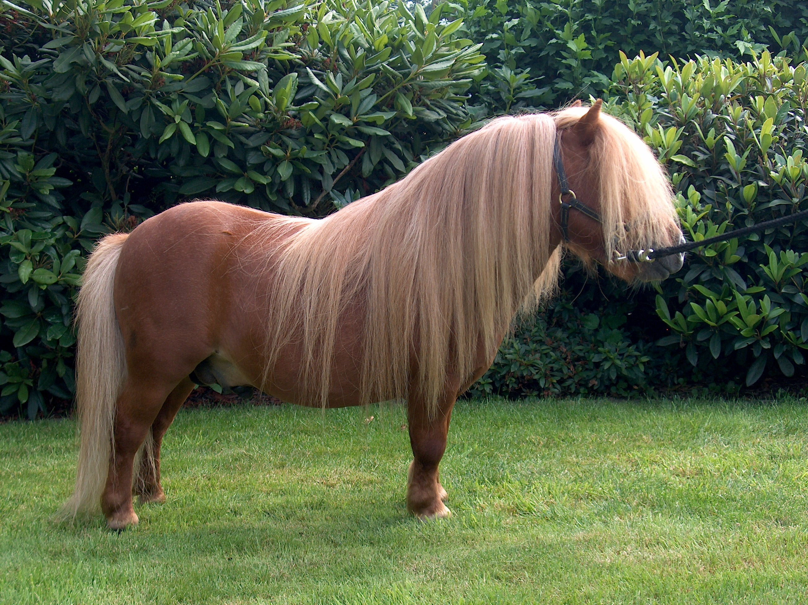 Shetland Pony